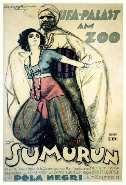 Movie poster to illustrate article on Sumurum.